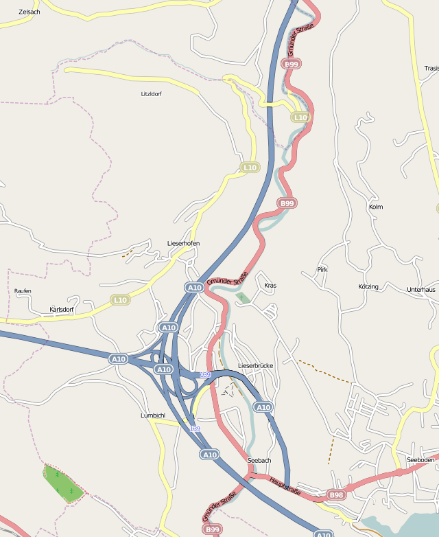 This map may be incomplete, and may contain errors. Don't rely solely on it for navigation.